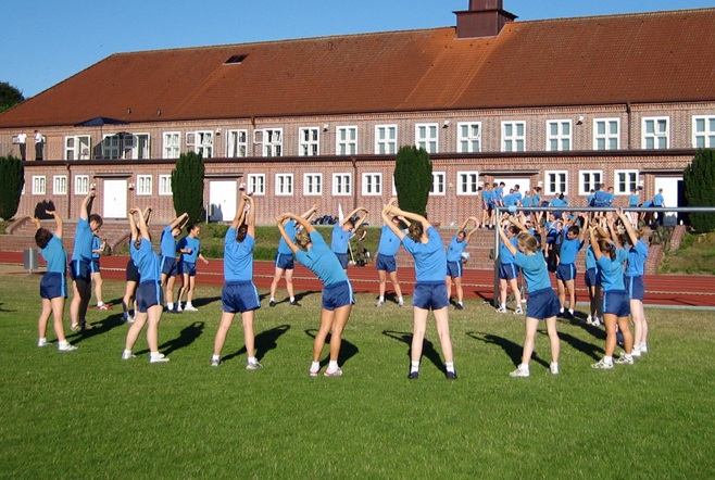 Cadets of the German Navy taking exercises in front of one of the gyms of Germany's naval officers school, the Marineschule Mürwik.